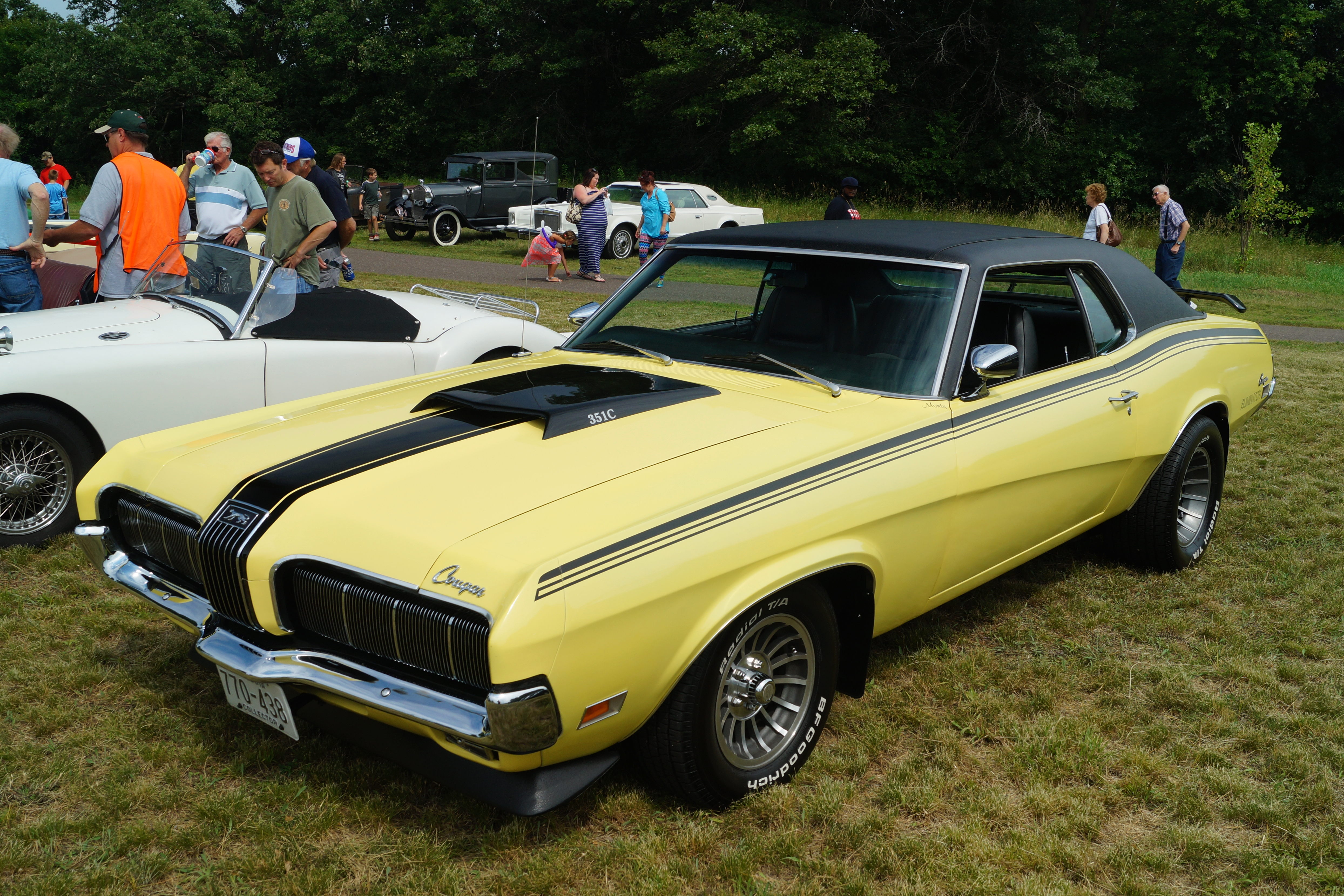 29th Annual New London to New Brighton Antique Car August 2015 Finish Line Stockyard Days Long Lake Regional Park New Brighton Minnesota Mile 118.5 Click here for more car pictures at my Flickr site.